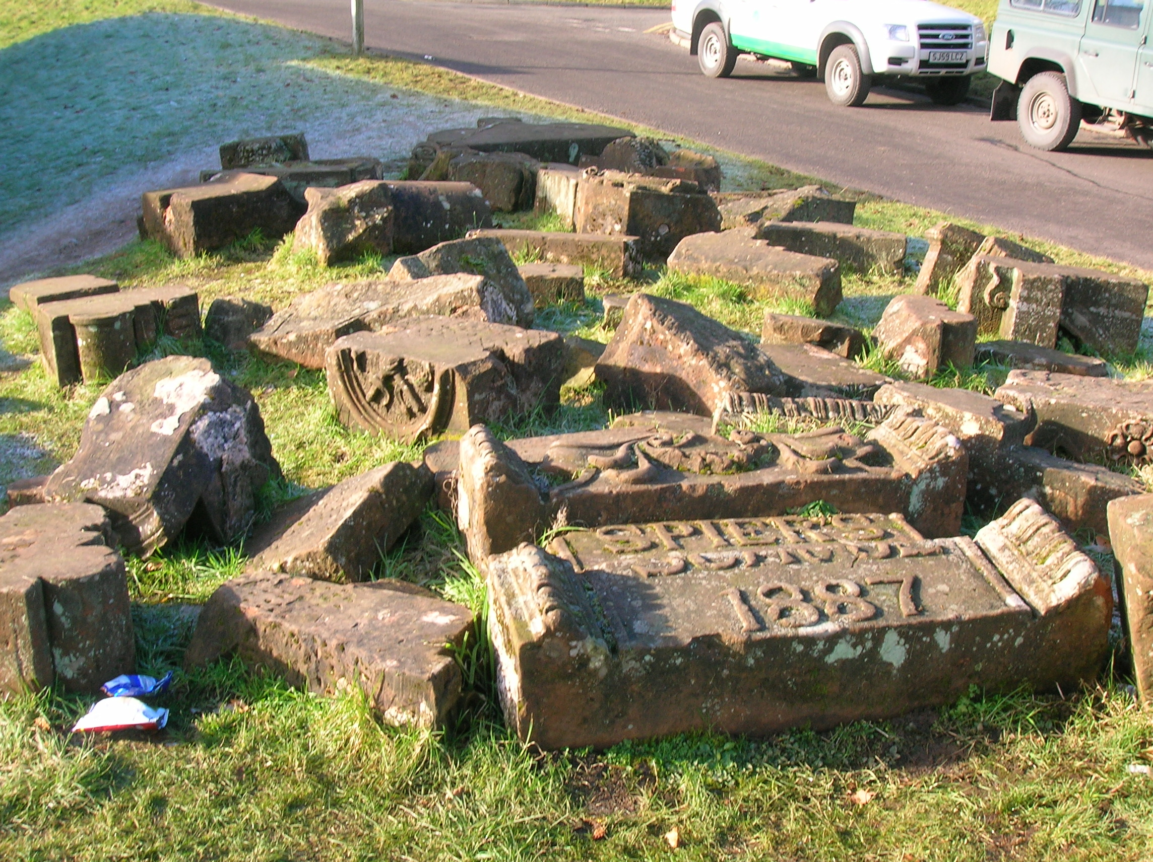 Stones from the old Spier's School at Garnock Academy, Kilbirnie, North Ayrshire.